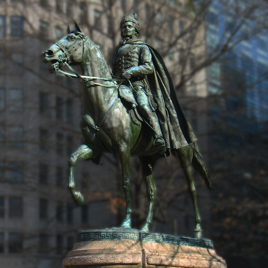 Equestrian sculpture by Kazimierz Chodziński, located at the east end of Freedom Plaza in Washington, D.C.